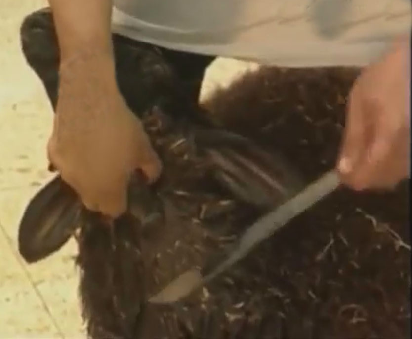 sheep shchita before mitzvah of foreleg cheeks and abomasum